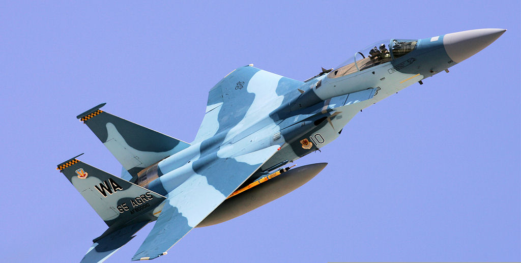 McDonnell Douglas F-15C-27-MC Eagle 80-0010 of the 65th Aggressor Squadron, Nellis AFB, Nevada